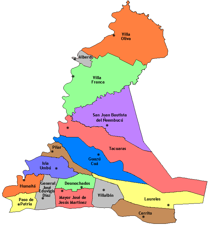 Ñeembucú with their districs.